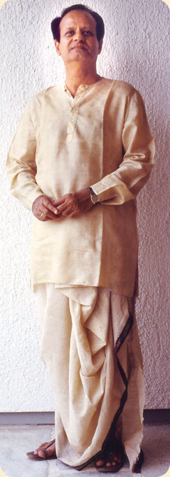 Rivers and poets Are veins and arteries Of a country. Rivers flow like poems For animals, for birds And for human beings- The dreams that rivers dream Bear fruit in the fields The dreams that poets dream Bear fruit in the people- -Seshendra Sharma Seshendra Visionary poet of the millennium October 20th,1927 - May 30th ,2007 Parents: G.Subrahmanyam (Father) , Ammayamma (Mother) Siblings: Anasuya,Devasena (Sisters), Rajasekharam(Younger brother) Wife: Mrs.Janaki Sharma Children: Vasundhara , Revathi (Daughters), Vanamaali , Saatyaki (Sons) Seshendra Sharma better known as Seshendra is a colossus of Modern Indian poetry. His literature is a unique blend of the best of poetry and poetics. Diversity and depth of his literary interests and his works are perhaps hitherto unknown in Indian literature. From poetry to poetics, from Mantra Sastra to Marxist politics his writings bear an unnerving print of his rare Genius. His scholarship and command over Sankrit, English and Telugu Languages has facilitated his emergence as a towering personality of comparative literature in the 20th Century World literature. T.S.Eliot, Archibald MacLeish and Seshendra Sharma are trinity of world poetry and Poetics. His sense of dedication to the genre he chooses to express himself and the determination to reach the depths of subject he undertakes to explore place him in the galaxy of world poets / world intellectuals.